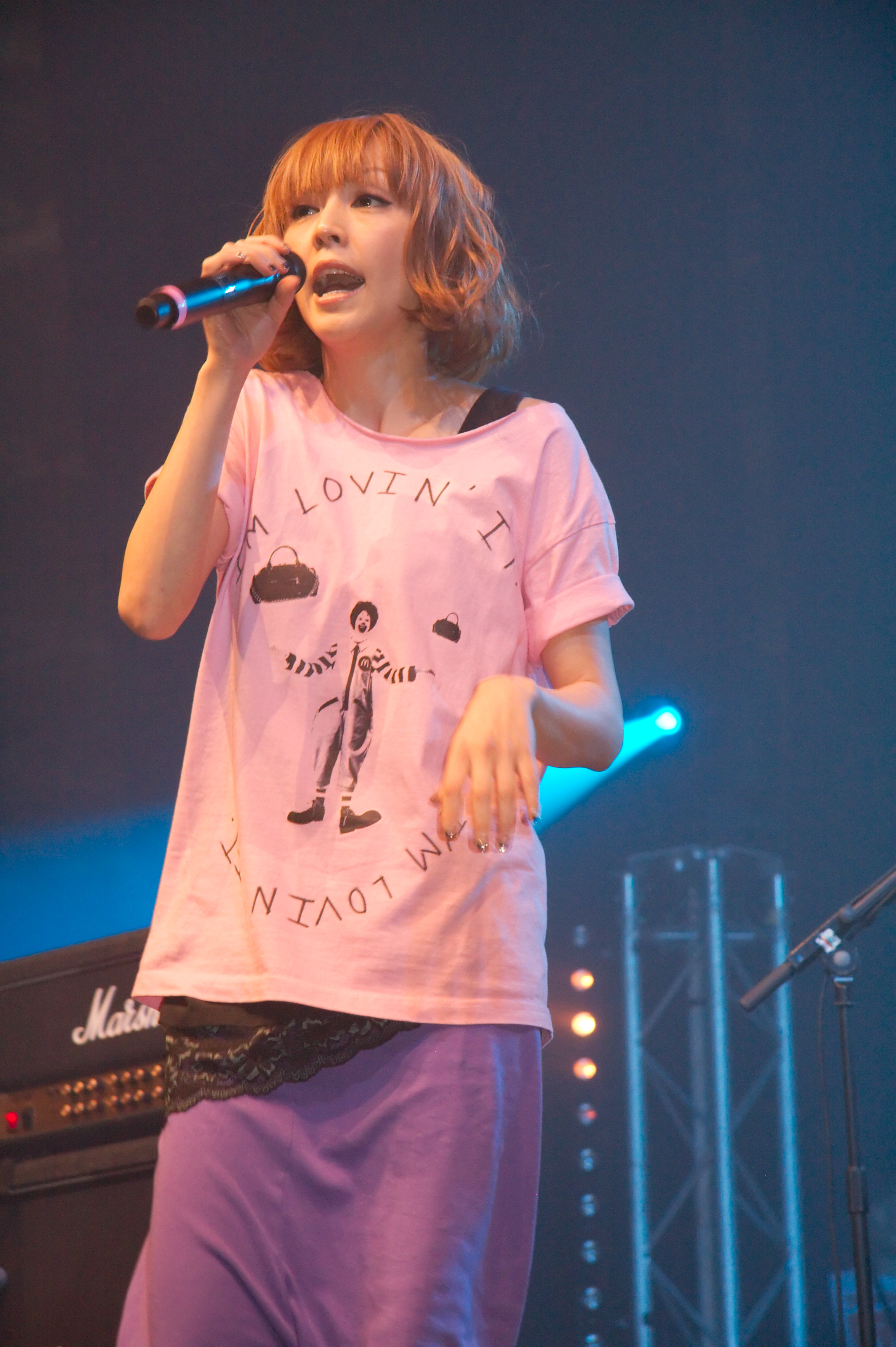 Puffy AmiYumi live at Japan Expo 2009 (Paris, France)